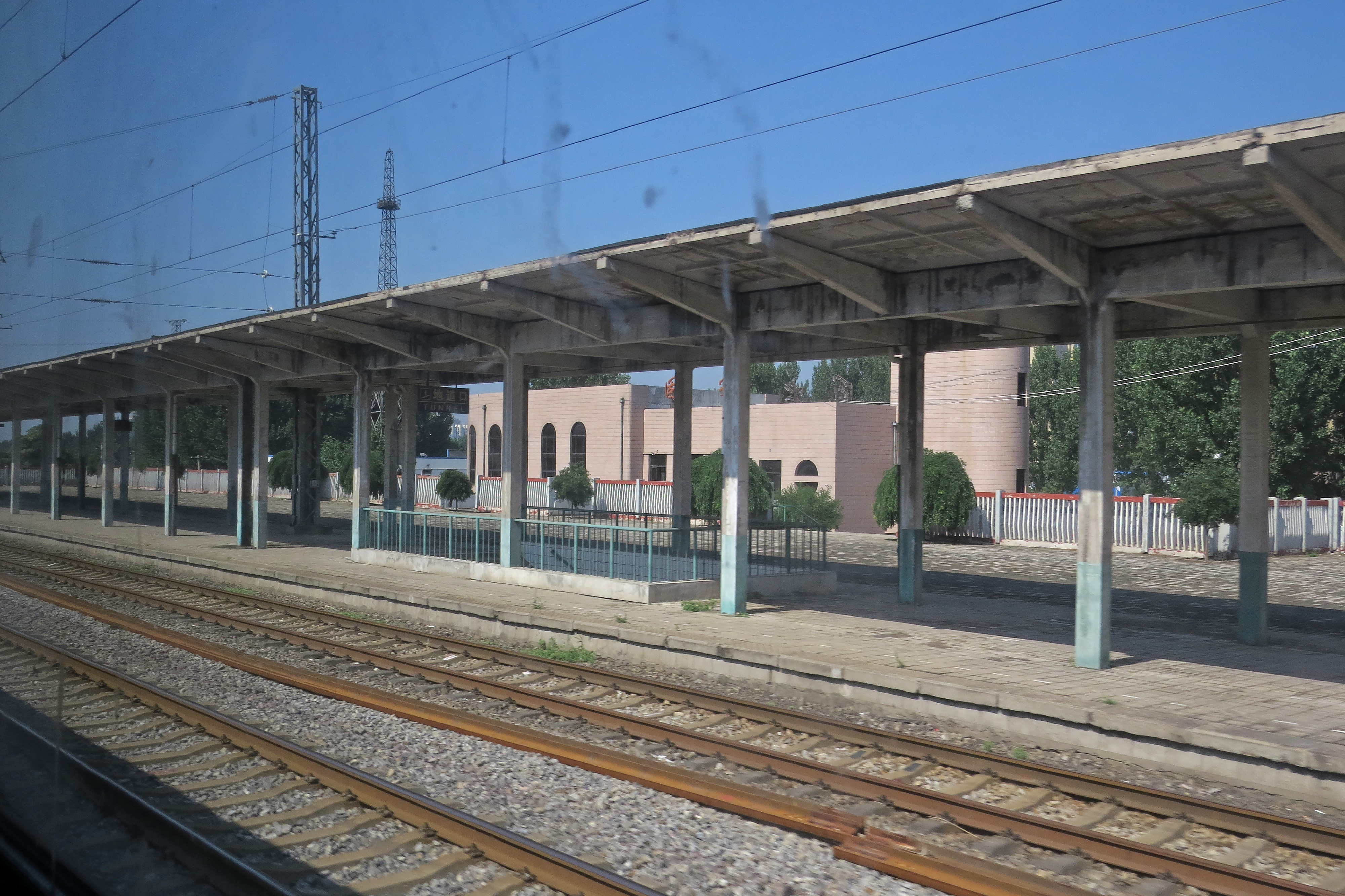 The next station is Bazhou...taken from Z601.